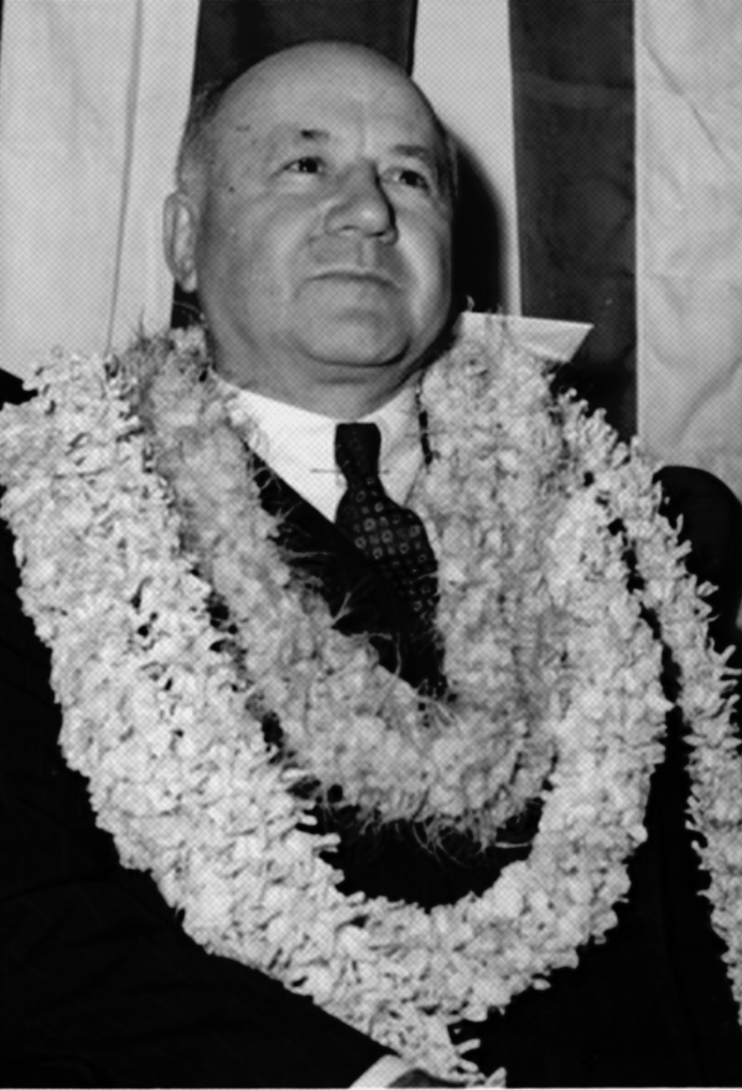 Ingram M. Stainback. Restoration of civil authority ceremony, House of Representatives chamber, Territorial Legislature, Iolani Palace.